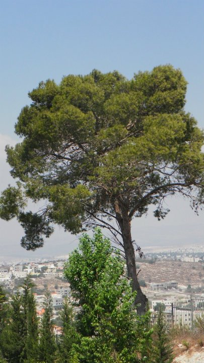 Geography of Israel